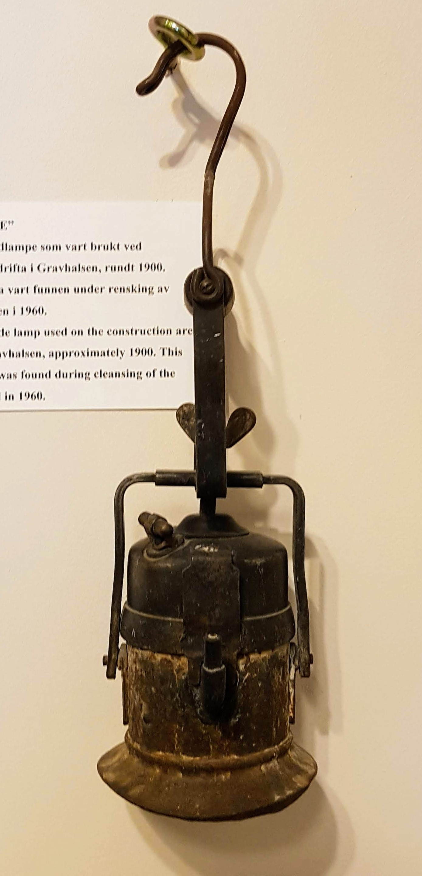 Carbide lamp from Flam Railway museum, made in 1900s and found during cleansing in 1960.